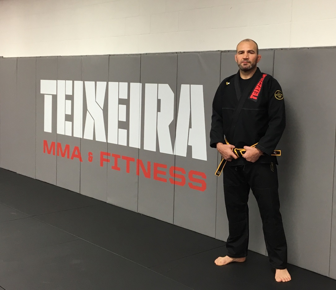 Teixeira at his training facility Teixeira MMA & Fitness